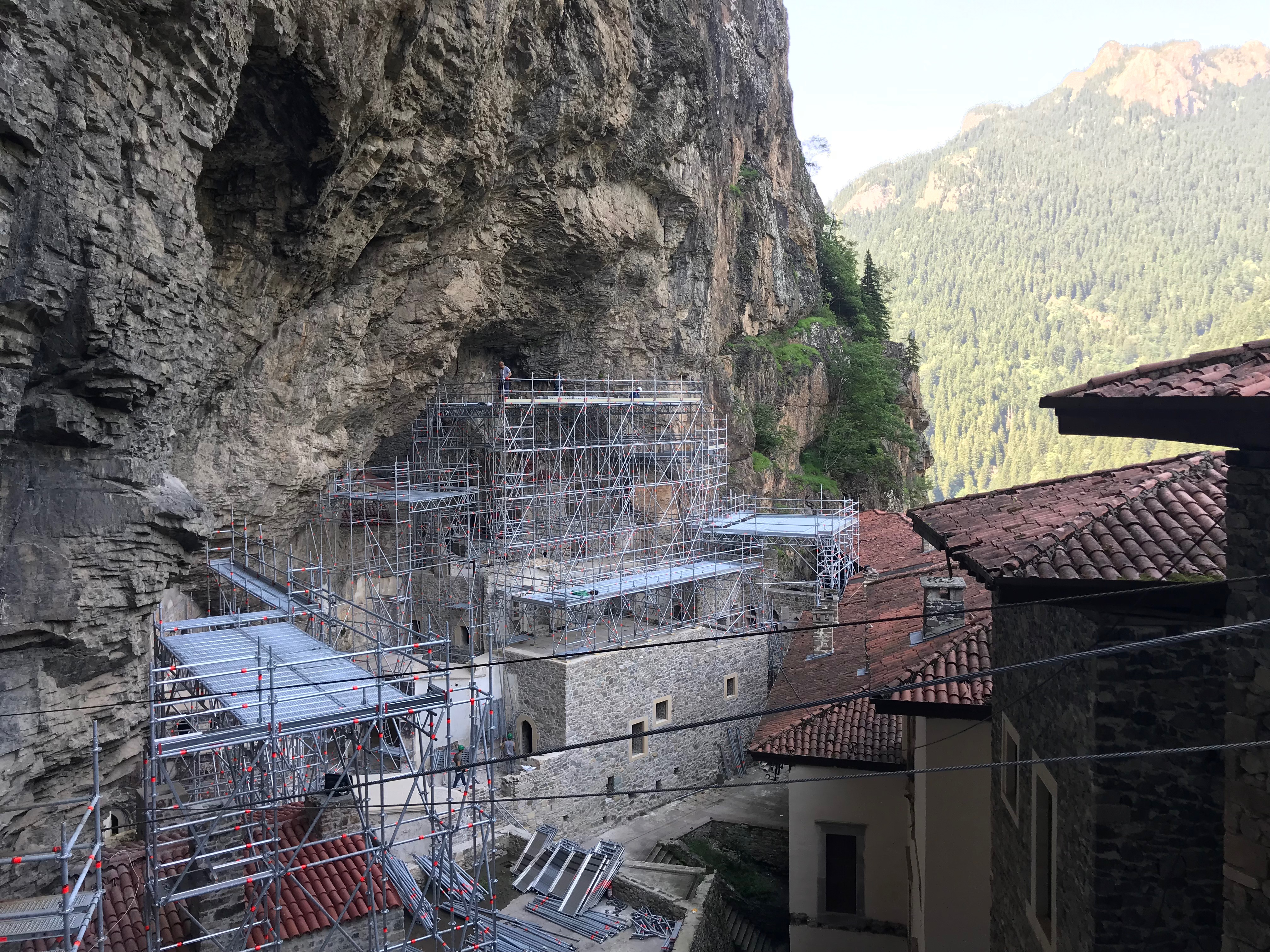 Sumela Monastery in Maçka, Trabzon, Turkey.